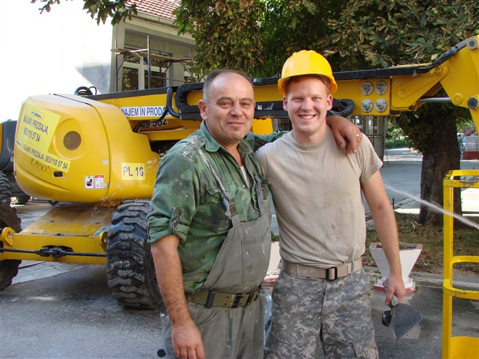 Spc. Eric D. Mackey and his Serbian army civilian counterpart, Milosevic Miroslay, share stories of the day’s work at Svetozar Markovic elementary school in Lapovo, Serbia, where they are completing renovations together through the National Guard Bureau State Partnership Program. Ohio and Serbia have been partnered since 2006.